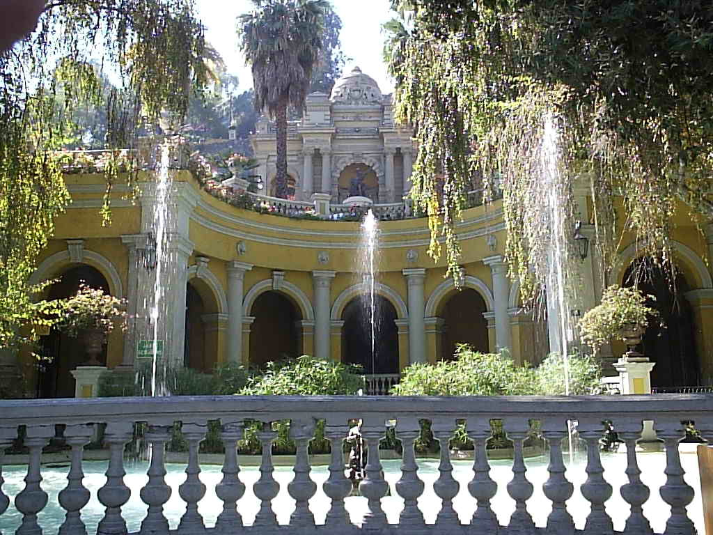 Santa Lucía Hill